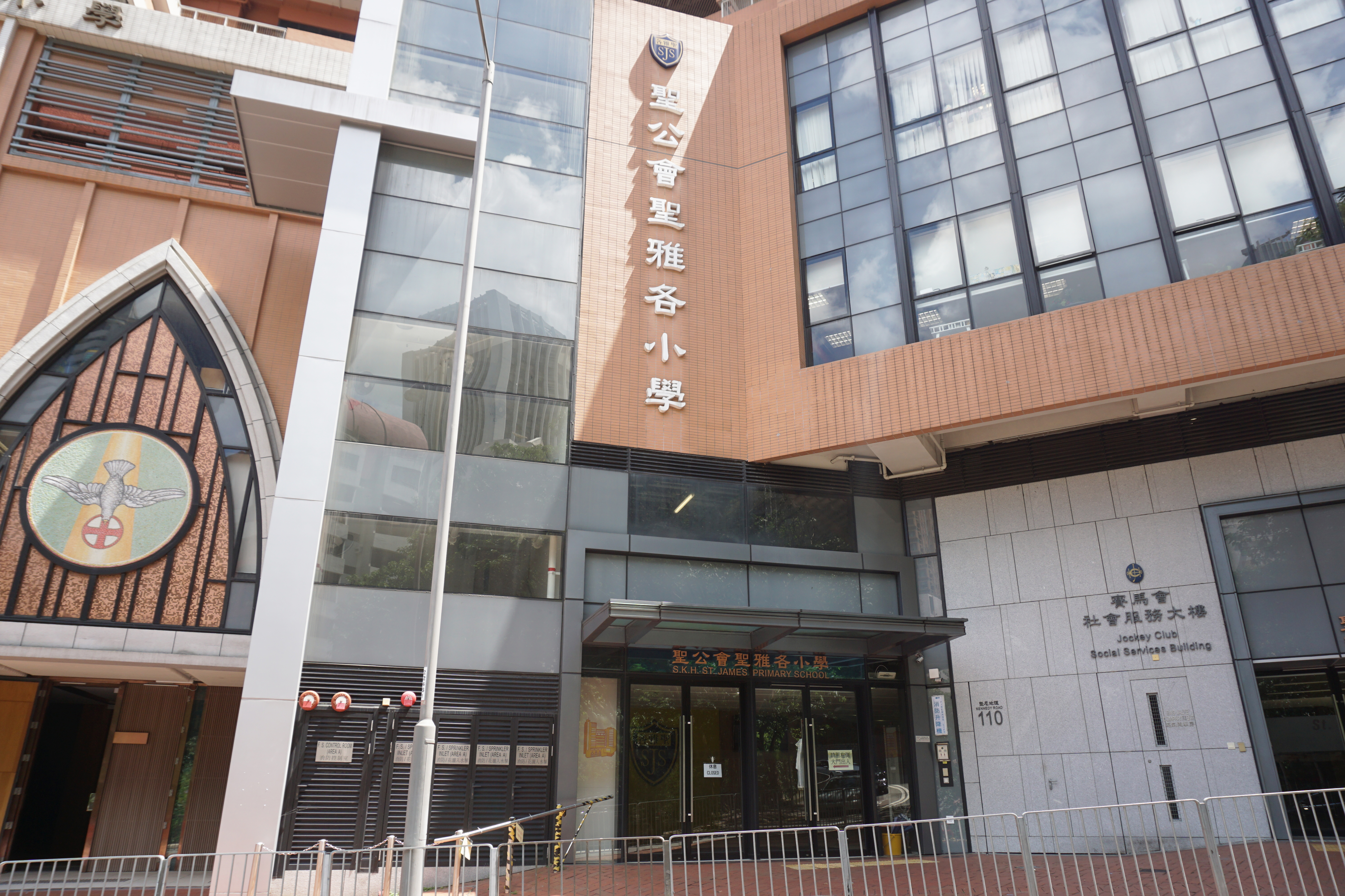 S.K.H. St. James' Primary School in Wan Chai, Hong Kong.